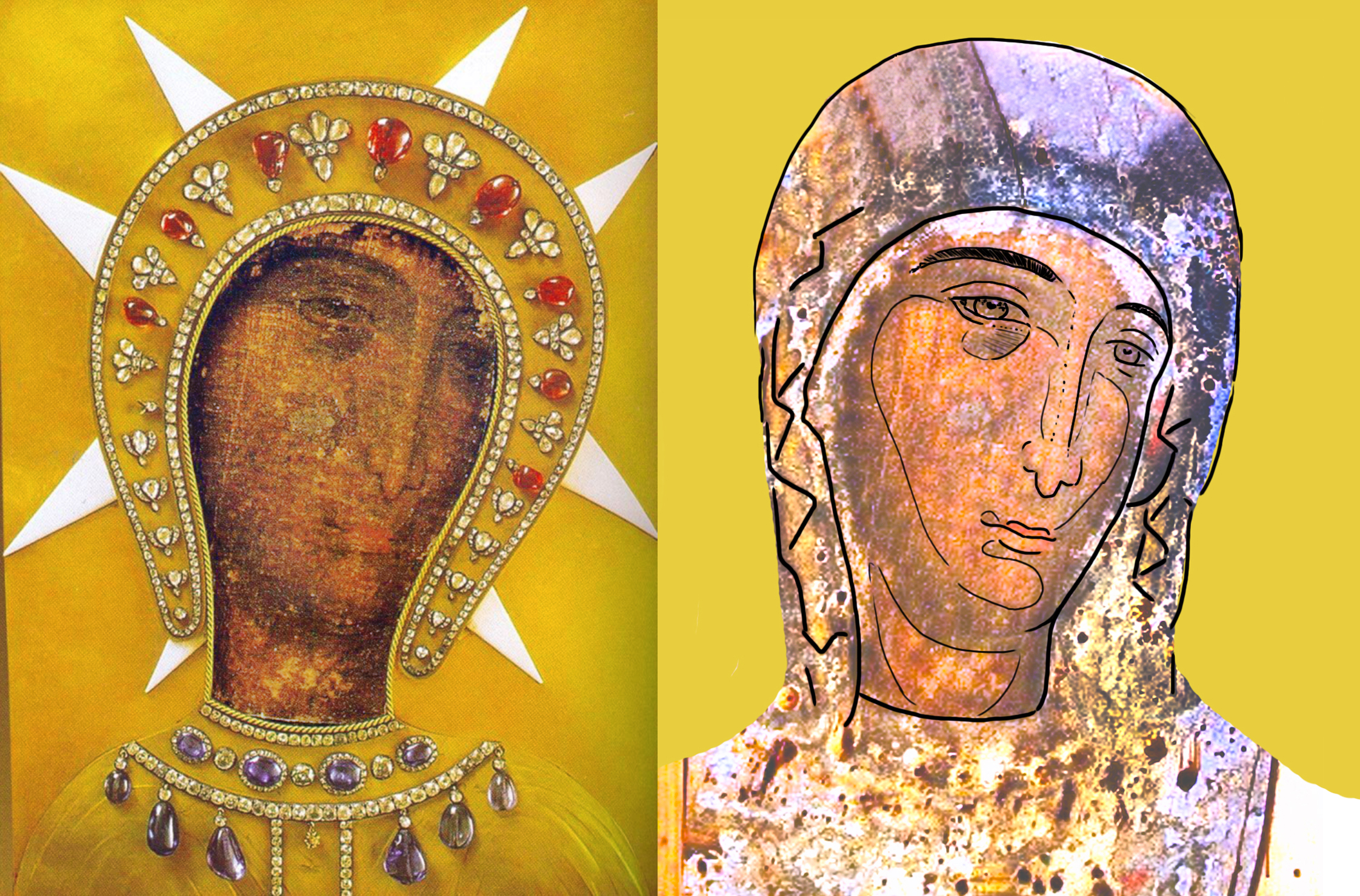 drawing of the residual visible features on the icon of the Virgin of Philermos out of the riza.